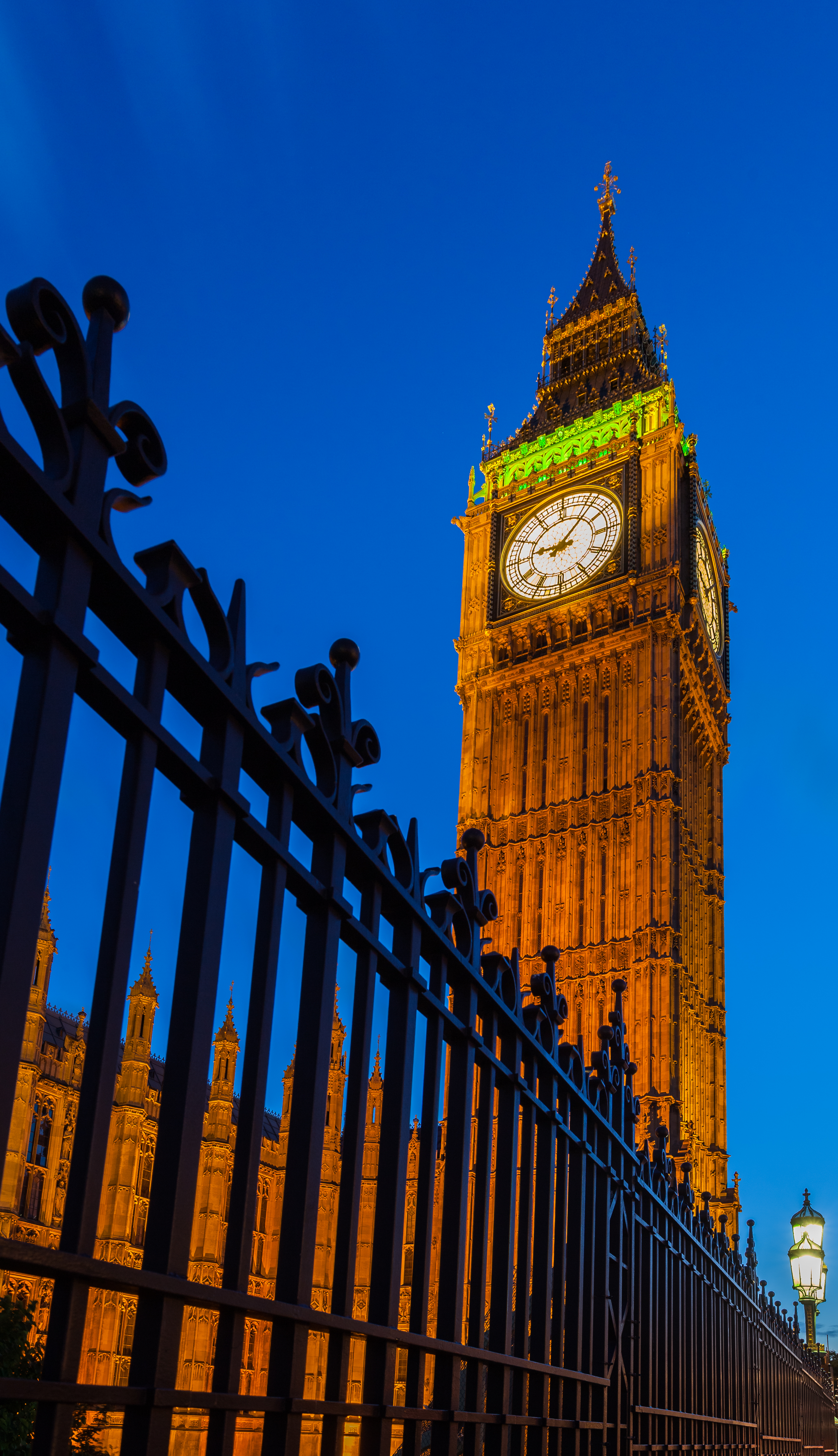 Big Ben, London, England